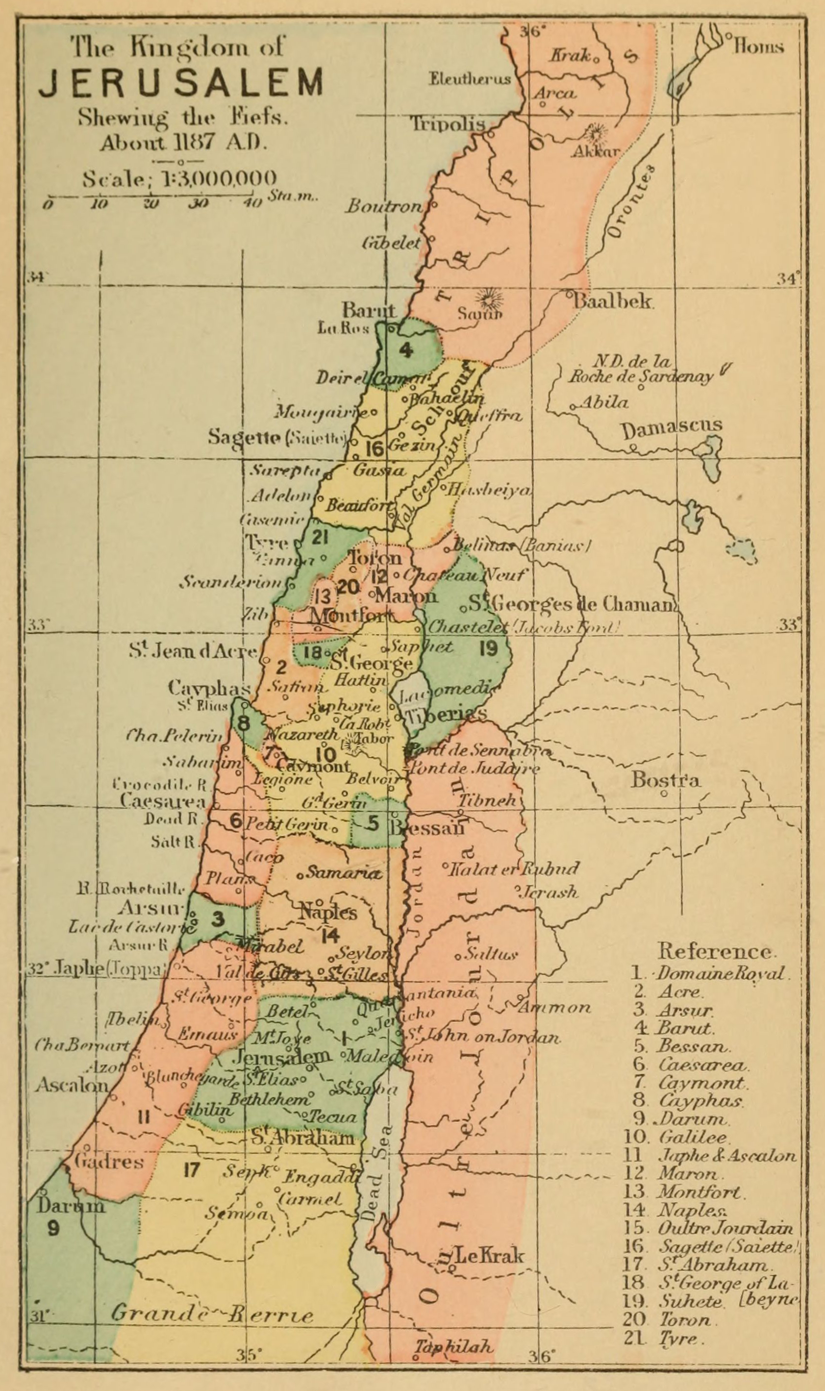 Claude Reignier Conder, Palestine (1889)